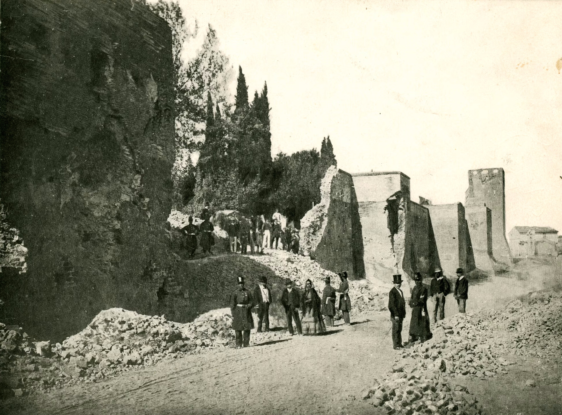 The Capture of Rome; the Italian artillery breached the Aurelian Walls at Porta Pia, through which the Bersaglieri entered Rome and annexed it to Italy, ending the long-lasting State of the Church